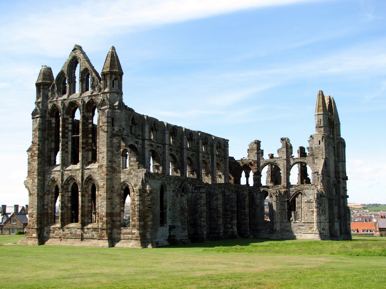 Whitby Abbey